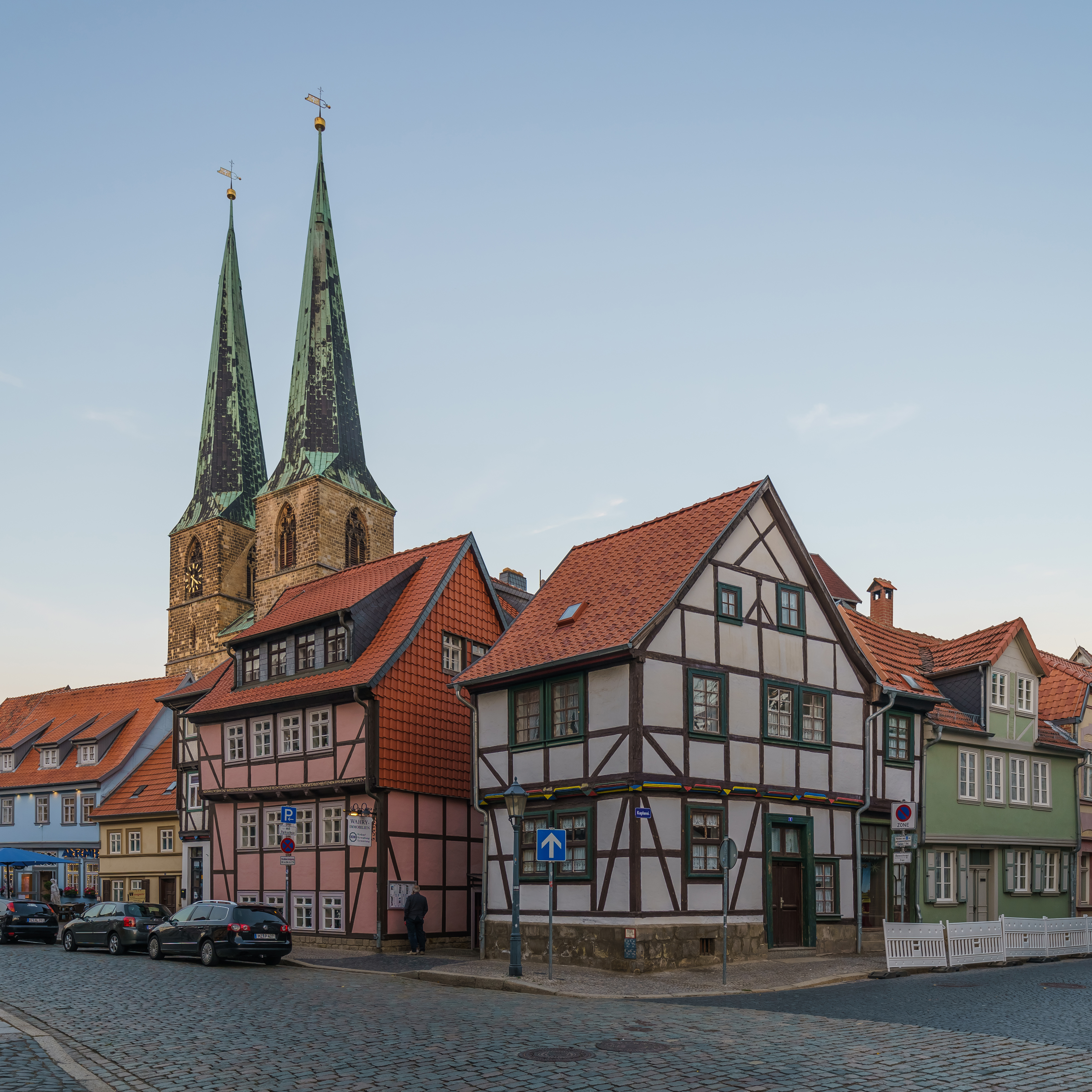 Old Town in Quedlinburg, Germany